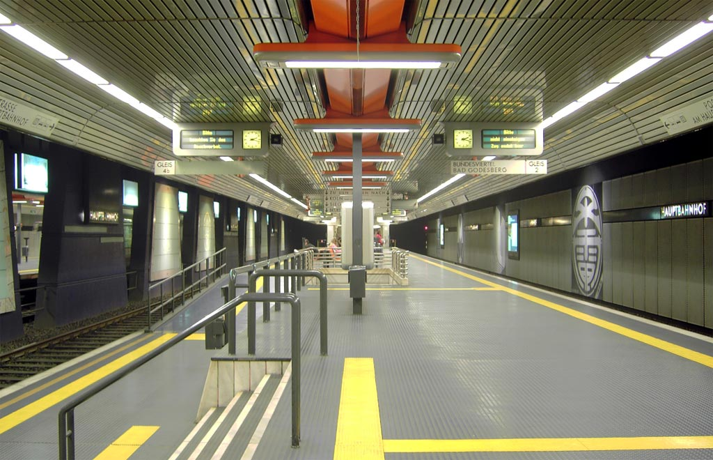 Bonn subway station Hauptbahnhof/Central Station